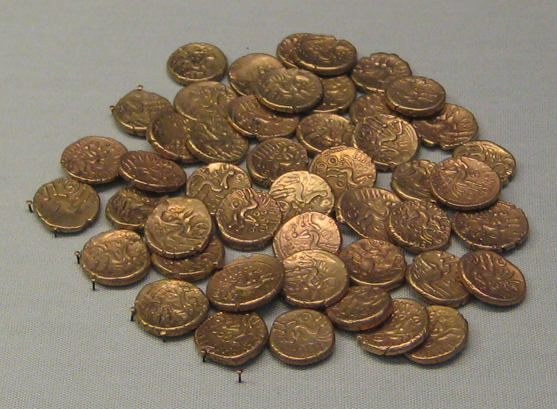 Alton A Hoard, 50 gold staters of Commios, Tincomarus and Epillus, 1st century AD, from Alton, Hampshire.